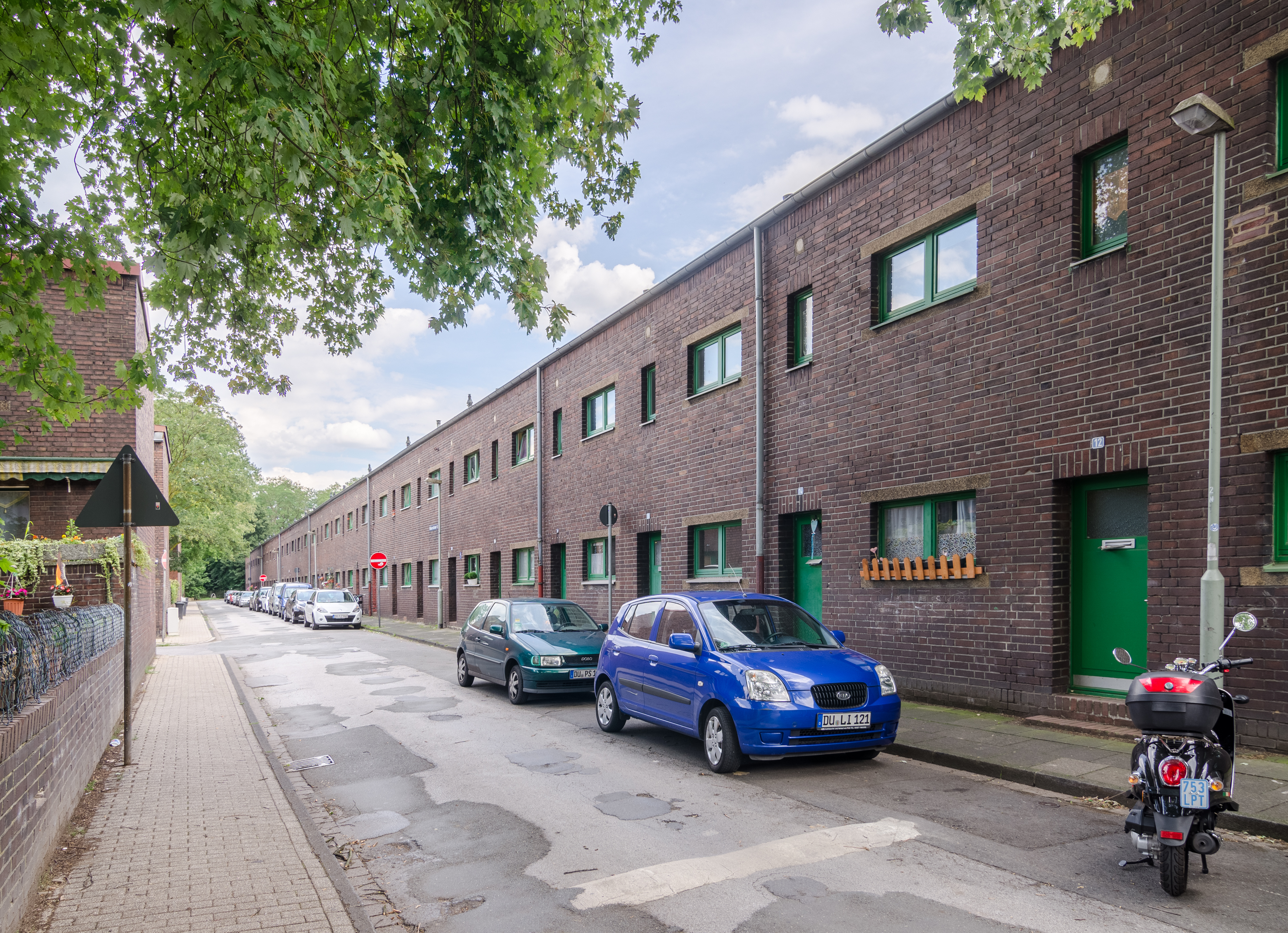 Duisburg (North Rhine-Westphalia, Germany) – borough Mitte, district Wanheimerort – Dickelsbach housing estate